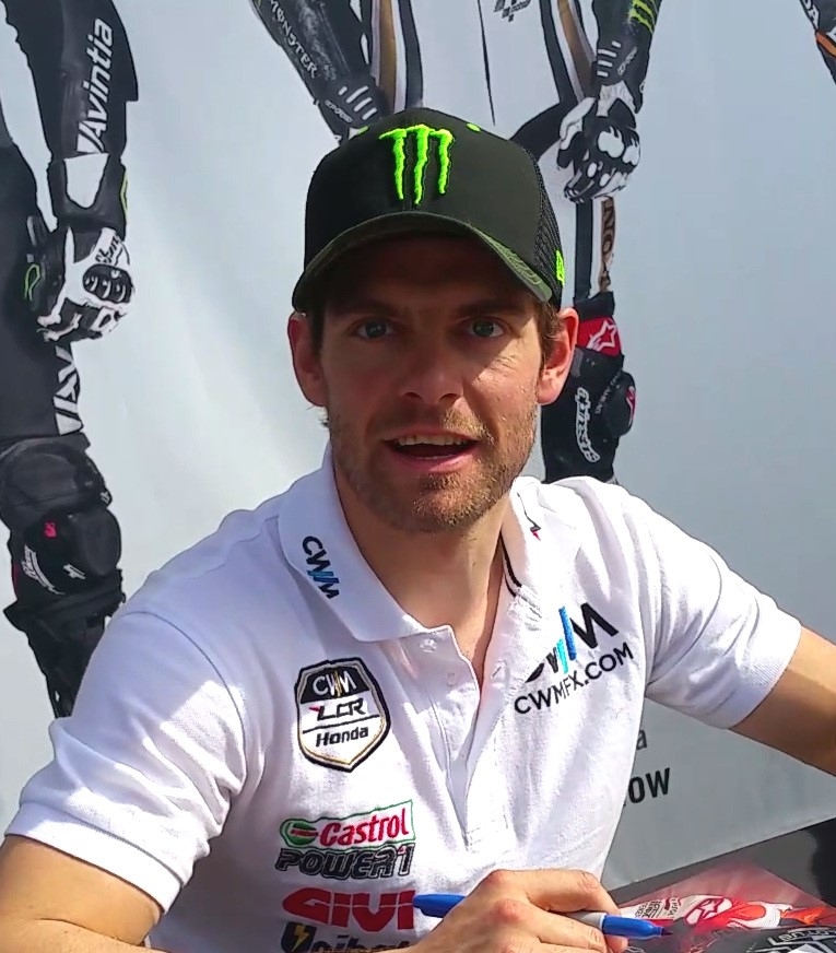 Cal Crutchlow at the autograph session at the 2015 MotoGP race at the Circuit of the Americas, Austin, Texas